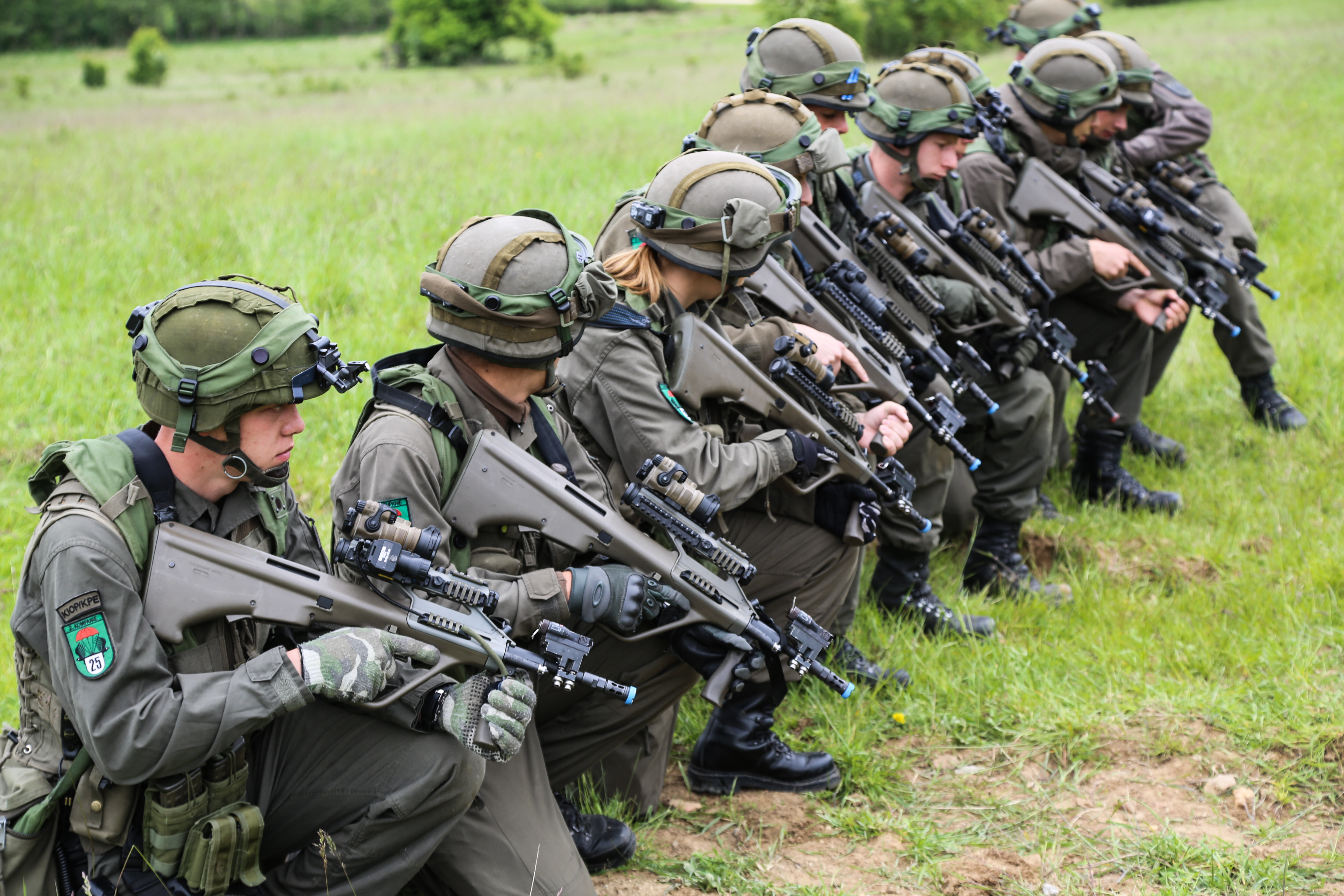 Austrian soldiers provide security after exiting a UH-60 Black Hawk helicopter during exercise Combined Resolve II at the Joint Multinational Readiness Center in Hohenfels, Germany, May 17, 2014. Combined Resolve II is a multinational decisive action training environment exercise occurring at the Joint Multinational Training Command’s Hohenfels and Grafenwoehr Training Areas that involves more than 4,000 participants from 15 partner nations. The intent of the exercise is to train and prepare a U.S. led multinational brigade to interoperate with multiple partner nations and execute unified land operations against a complex threat while improving the combat readiness of all participants. (U.S. Army photo by Spc. Justin De Hoyos/Released)